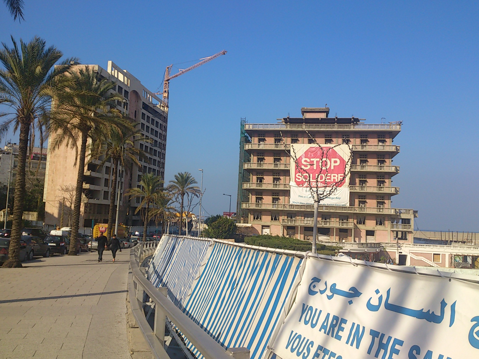 Stop Solidere sign at a former hotel in the city of Beirut